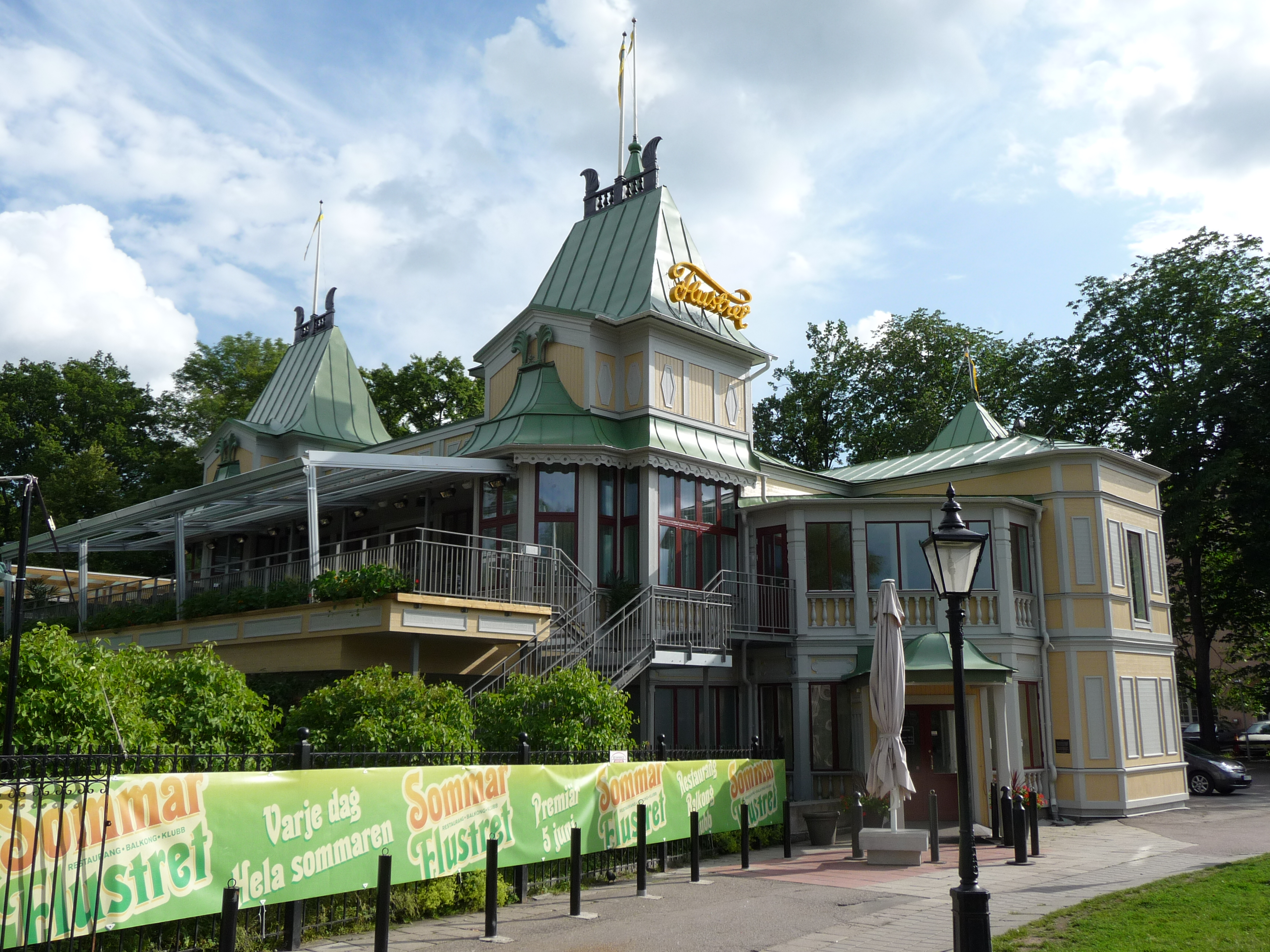 Flustret in Uppsala